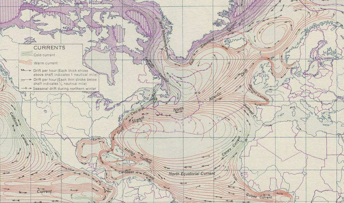 Ocean currents in north atlantic